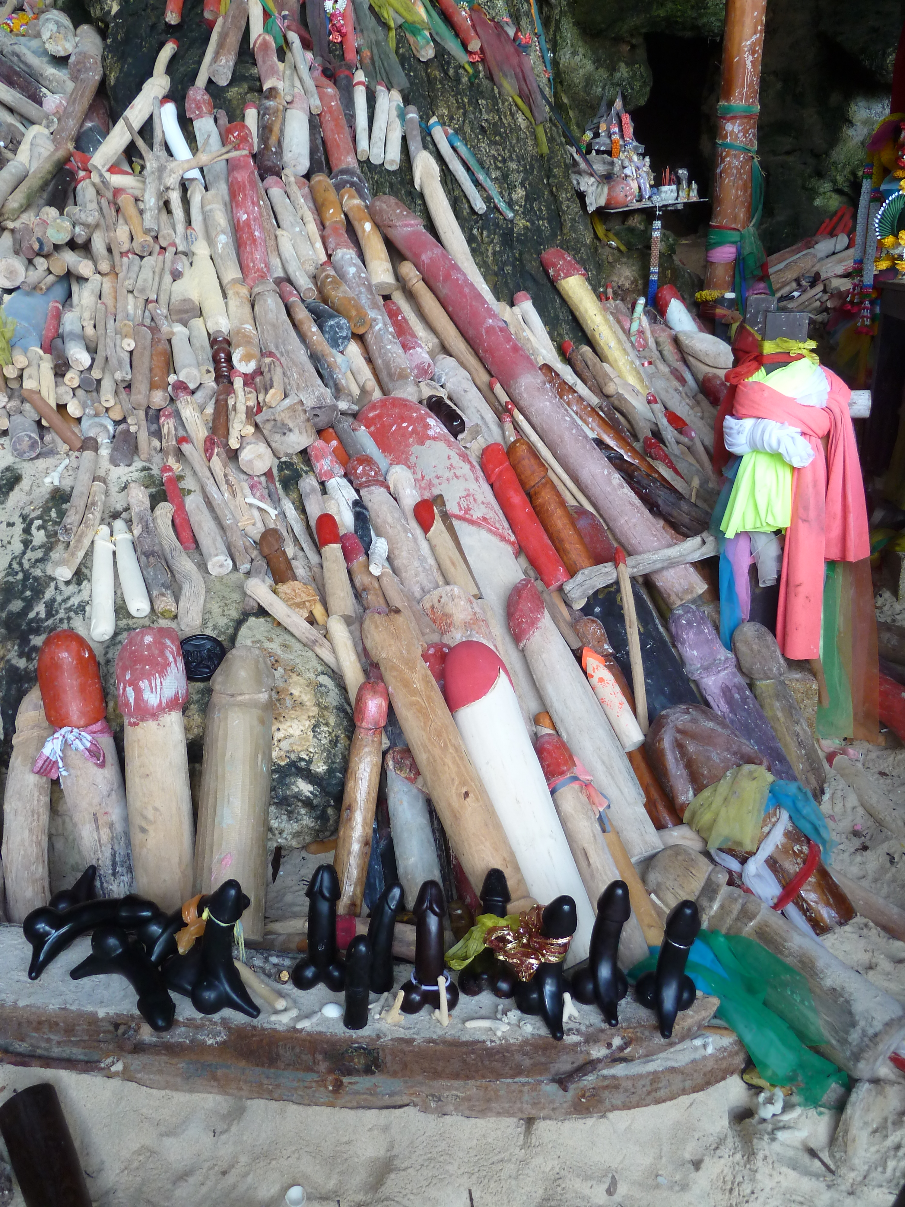 Phra Nang cave, Phra Nang beach, Rai Leh (Railay) Pennisula, Krabi, Thailand